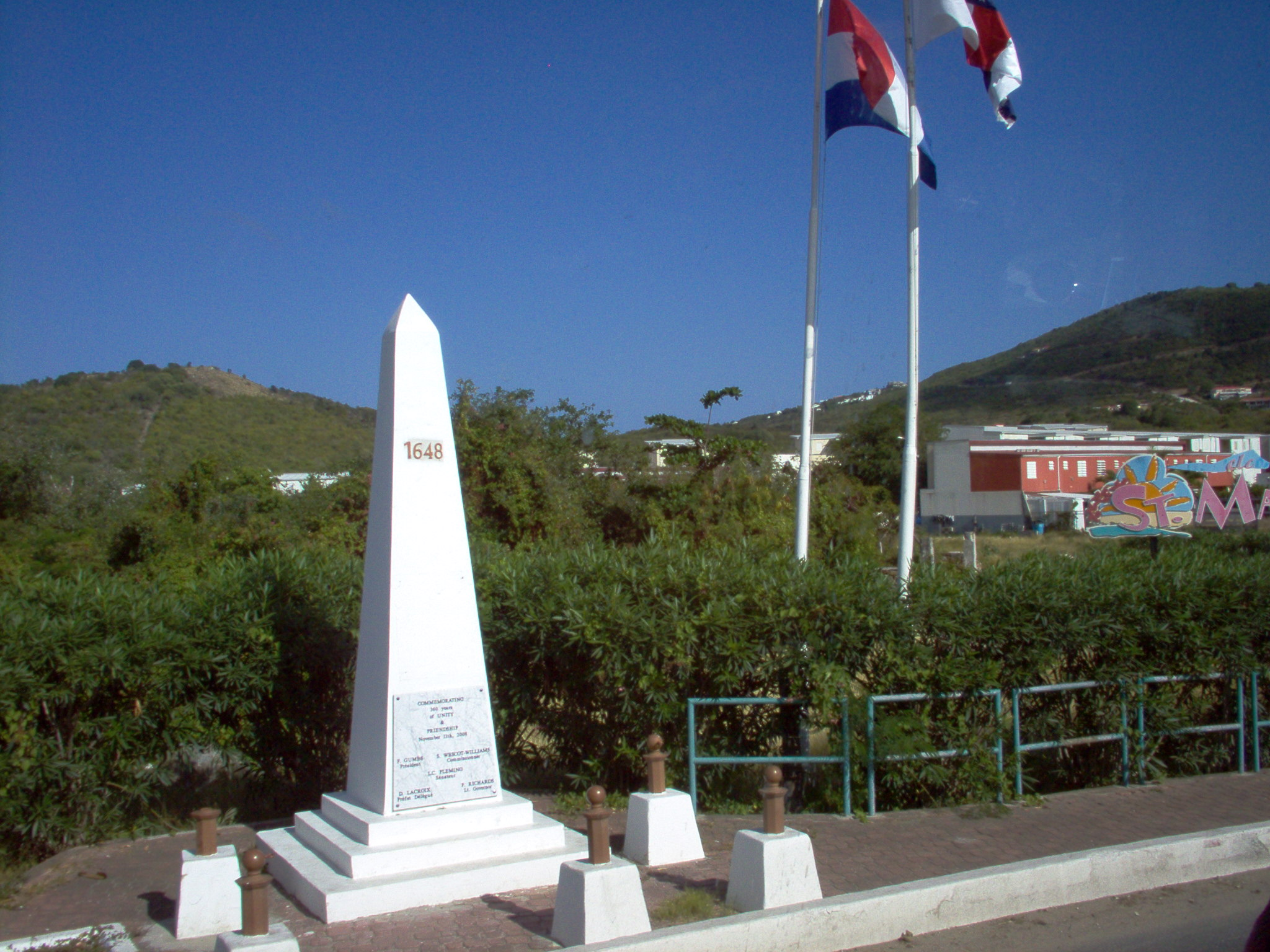 A newer border monument, crossing from Saint Martin to Sint Maarten, dedicated in 2008.